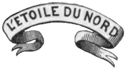 Minnesota's state motto, L'Étoile du Nord, from an 1879 rendering of the state's official seal.